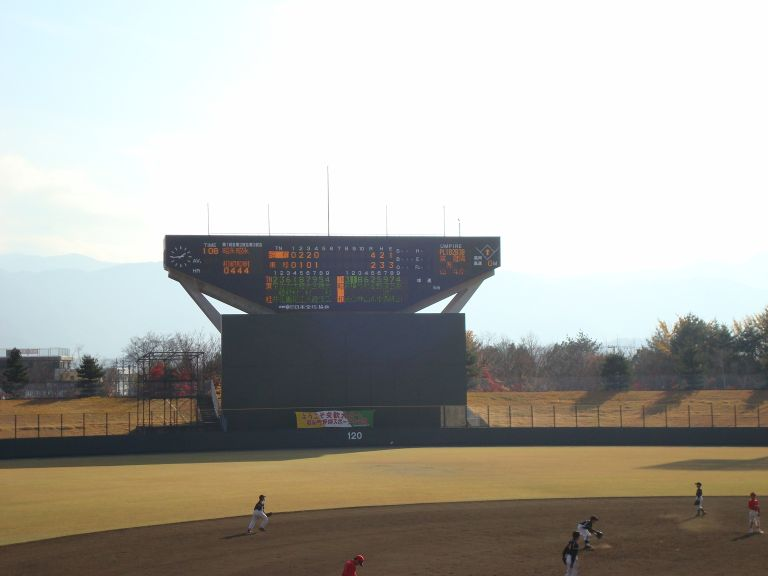 Kose baseball stadium at Kofu city, Yamanashi, Japan